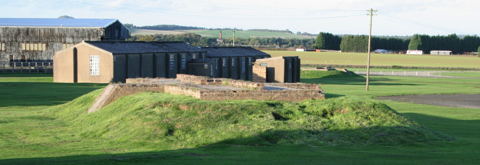 WWII-era buildings at East Fortune airfield, site of Scottish National Museum of Flight